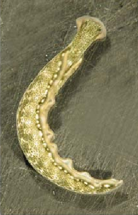 Thuridilla carlsoni. Locality: Lizard Island, Great Barrier Reef. The length of the slug is about 2 cm.